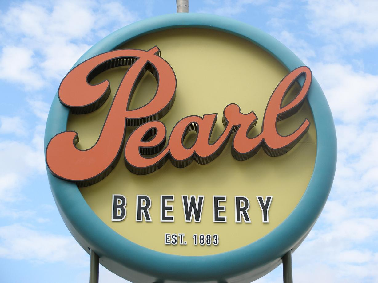 Closeup of the new Pearl Brewery sign. Image taken on 20 July 2006.